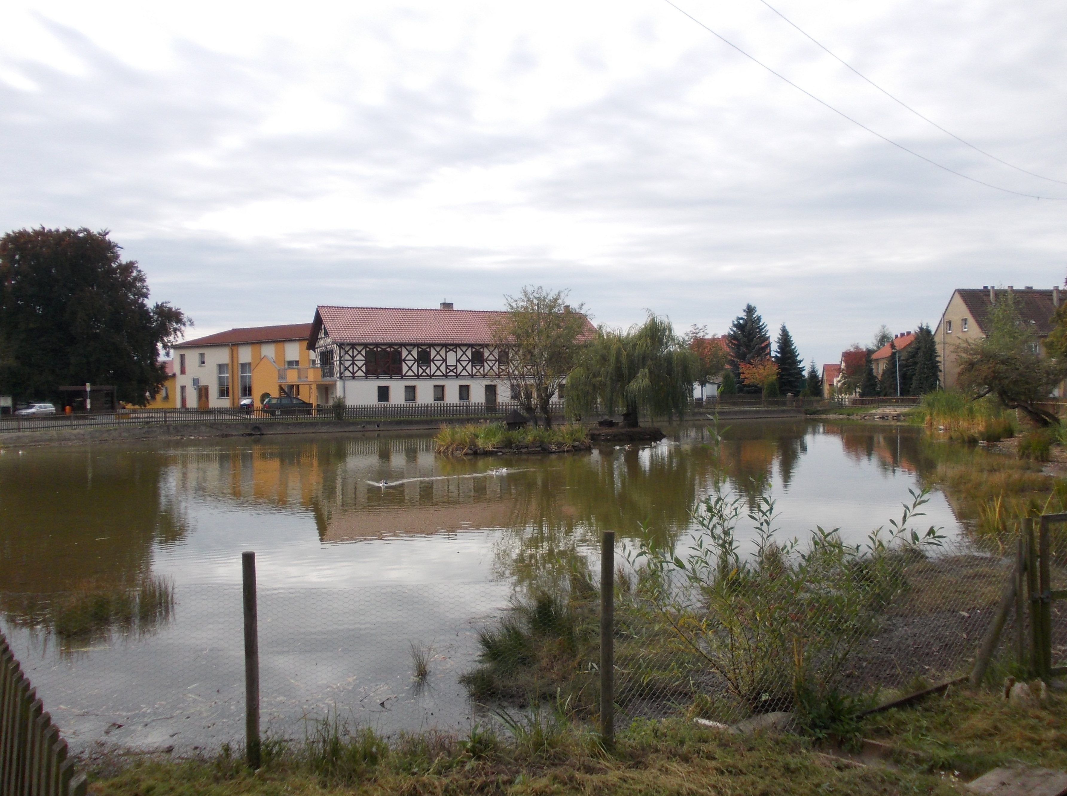 Pond in Hohenölsen (Greiz district, Thuringia)